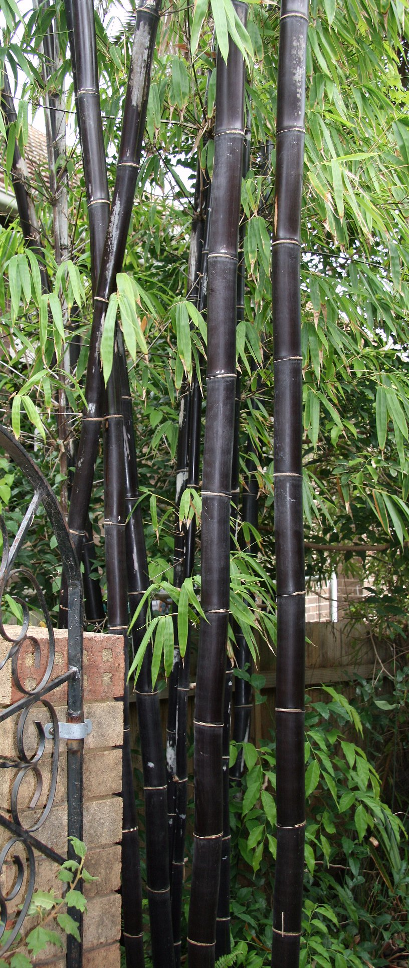 Bambusa lako, cult. Sydney